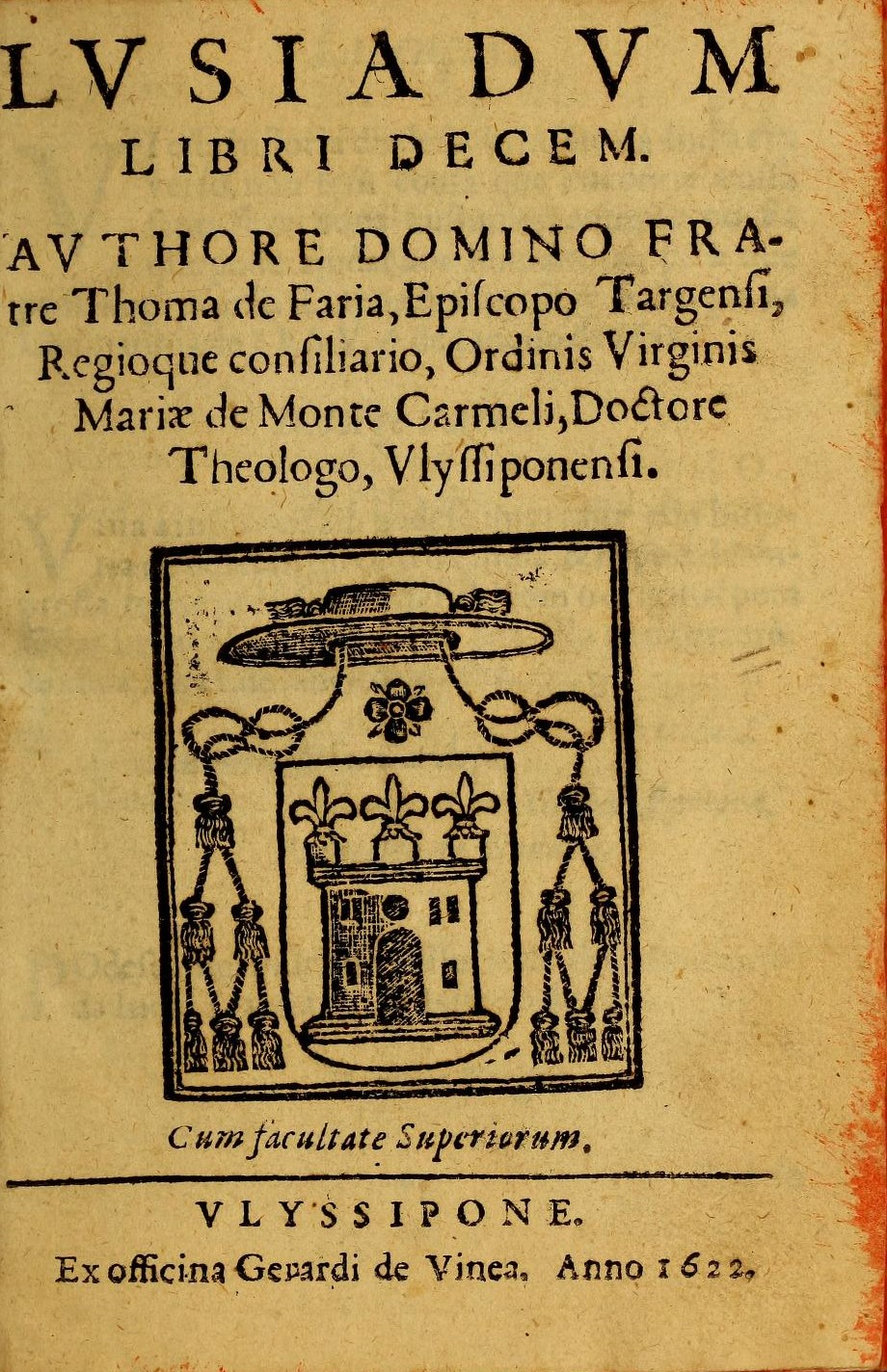 Title page of Tome de Faria's Latin translation of Os Lusiadas